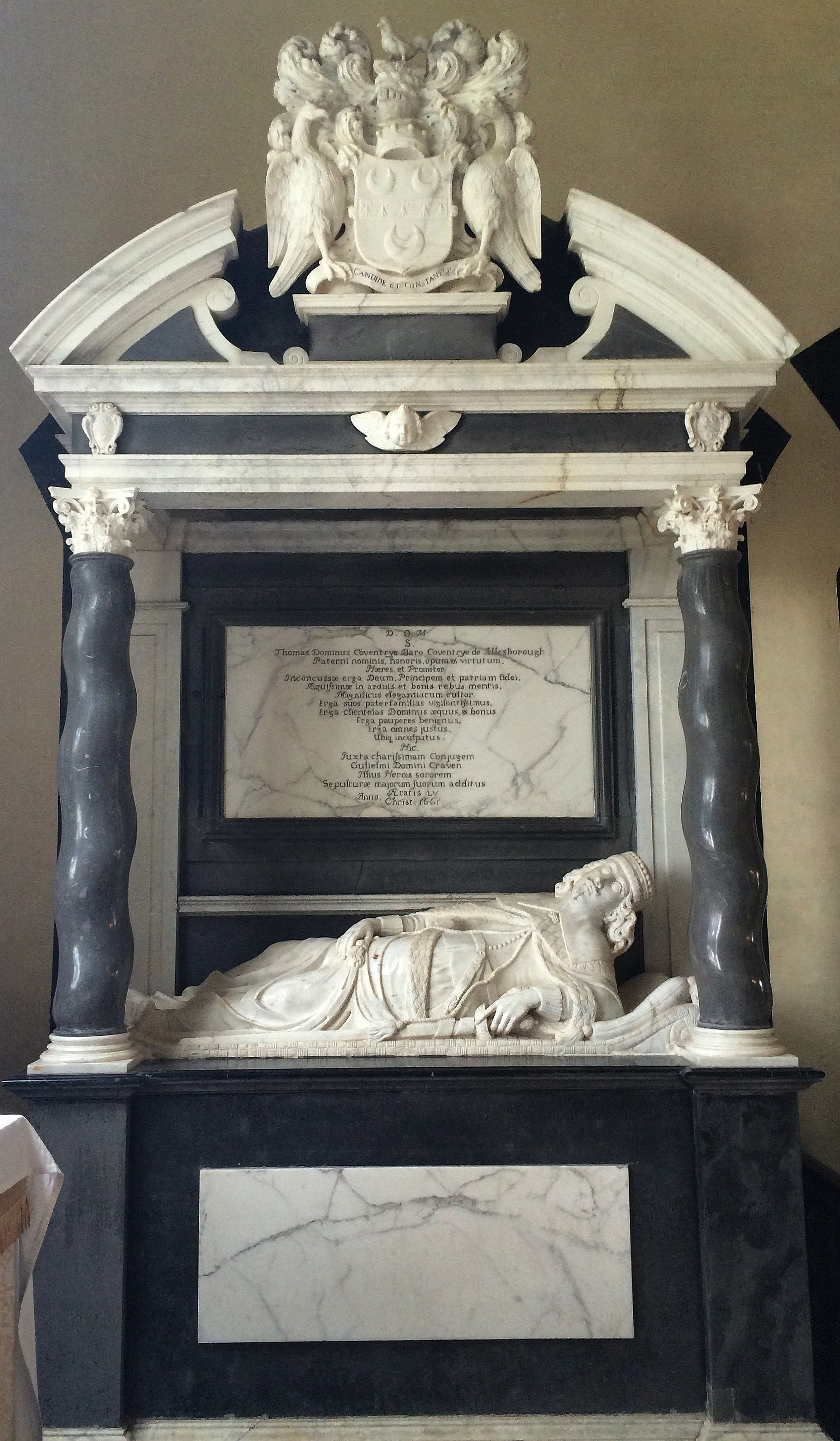 St Mary Magdalene, Croome, Worcs: Monument to Thomas Coventry, 2nd Baron Coventry (1606–1661)